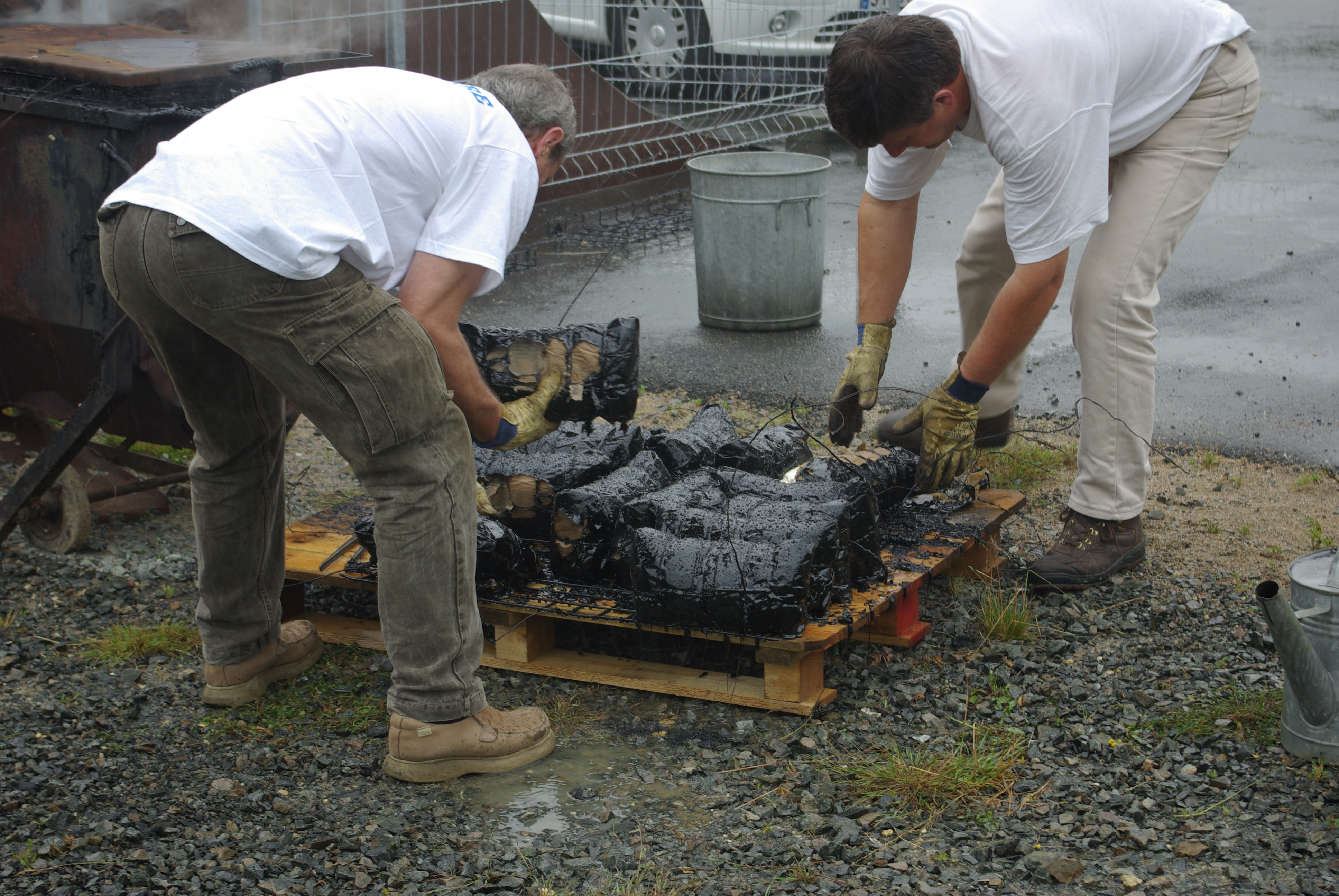 A "gigot-bitume" : A leg of lamb steamed in a bath of molten bitumlen. Photo taken during the annual fest in Pernay (Indre-et-Loire, France).